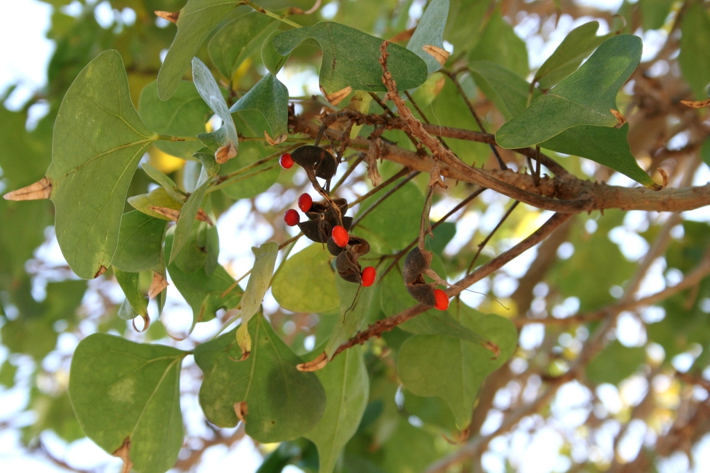 Coral tree leaves and seed pods